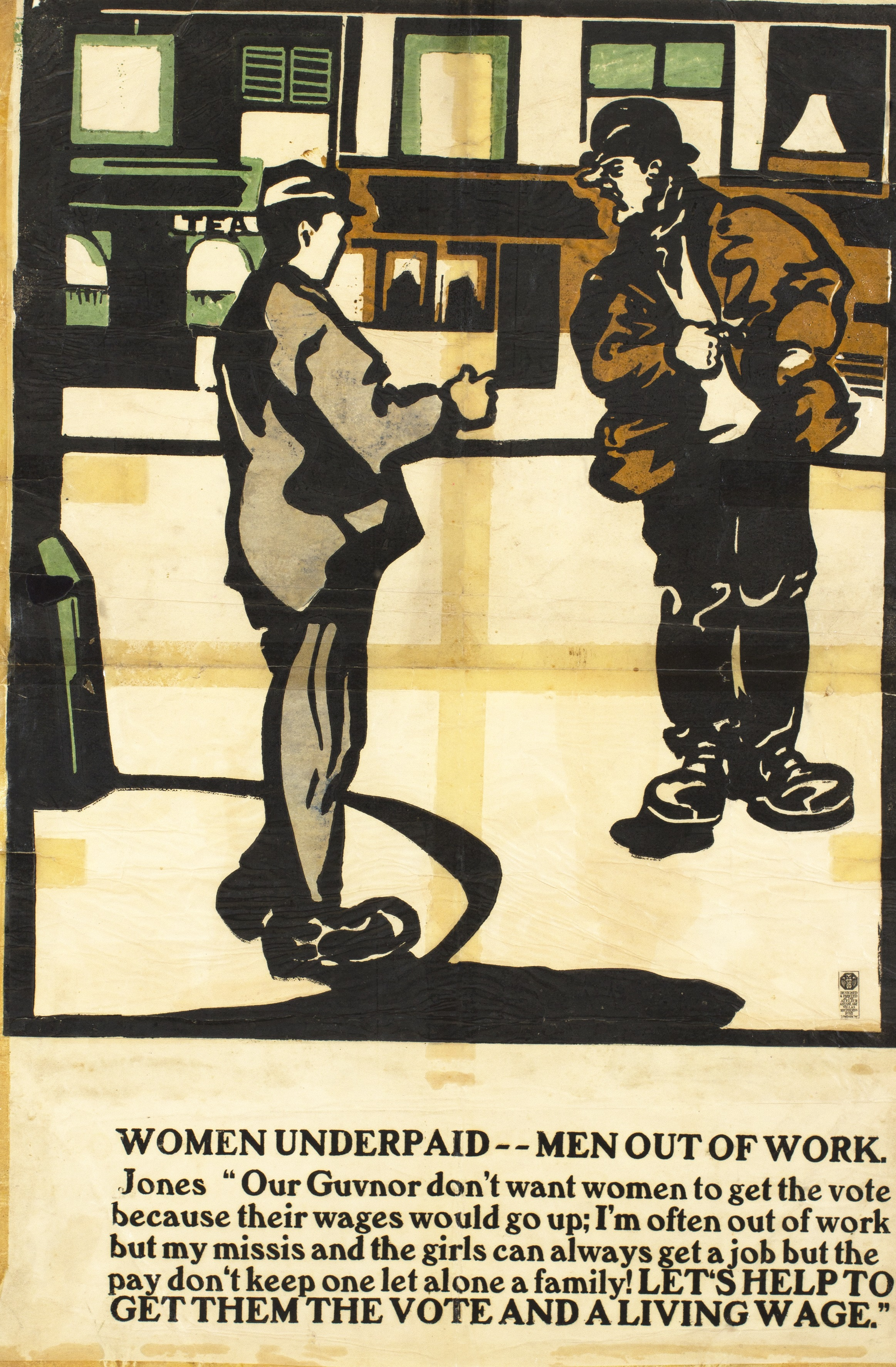 TWL.1998.92 Poster, printed, paper, brown, black, cream and green image of two men talking in the street, black printed inscription front: 'WOMEN UNDERPAID - - MEN OUT OF WORK. Jones 'Our Guvnor don't want women to get the vote because their wages would go up; I'm often out of work but my missis and the girls can always get a job but the pay don't keep one let alone a family! LET'S HELP TO GET THEM THE VOTE AND A LIVING WAGE, cream ground, laminated.